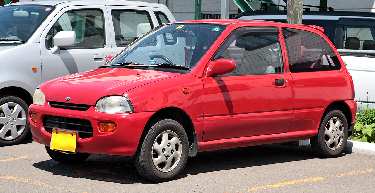 Subaru Vivio em-s 4WD